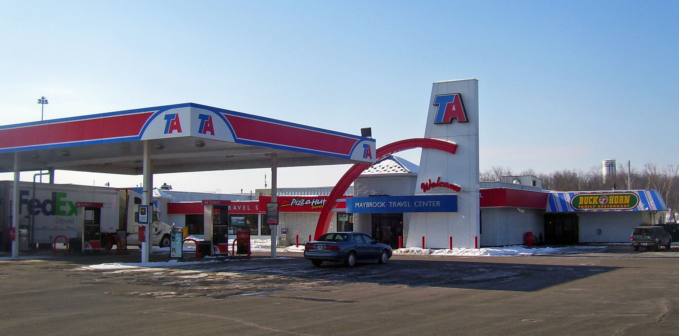 TravelCenters of America truck stop off I-84 near village of Maybrook in the Town of Montgomery, NY, USA